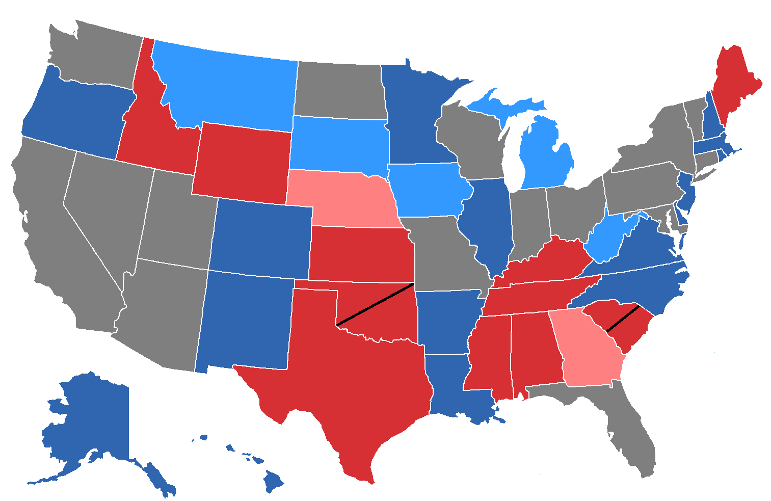 Update regarding two Senate Elections in Oklahoma and Montana Senator John Walsh's withdraw from his race.